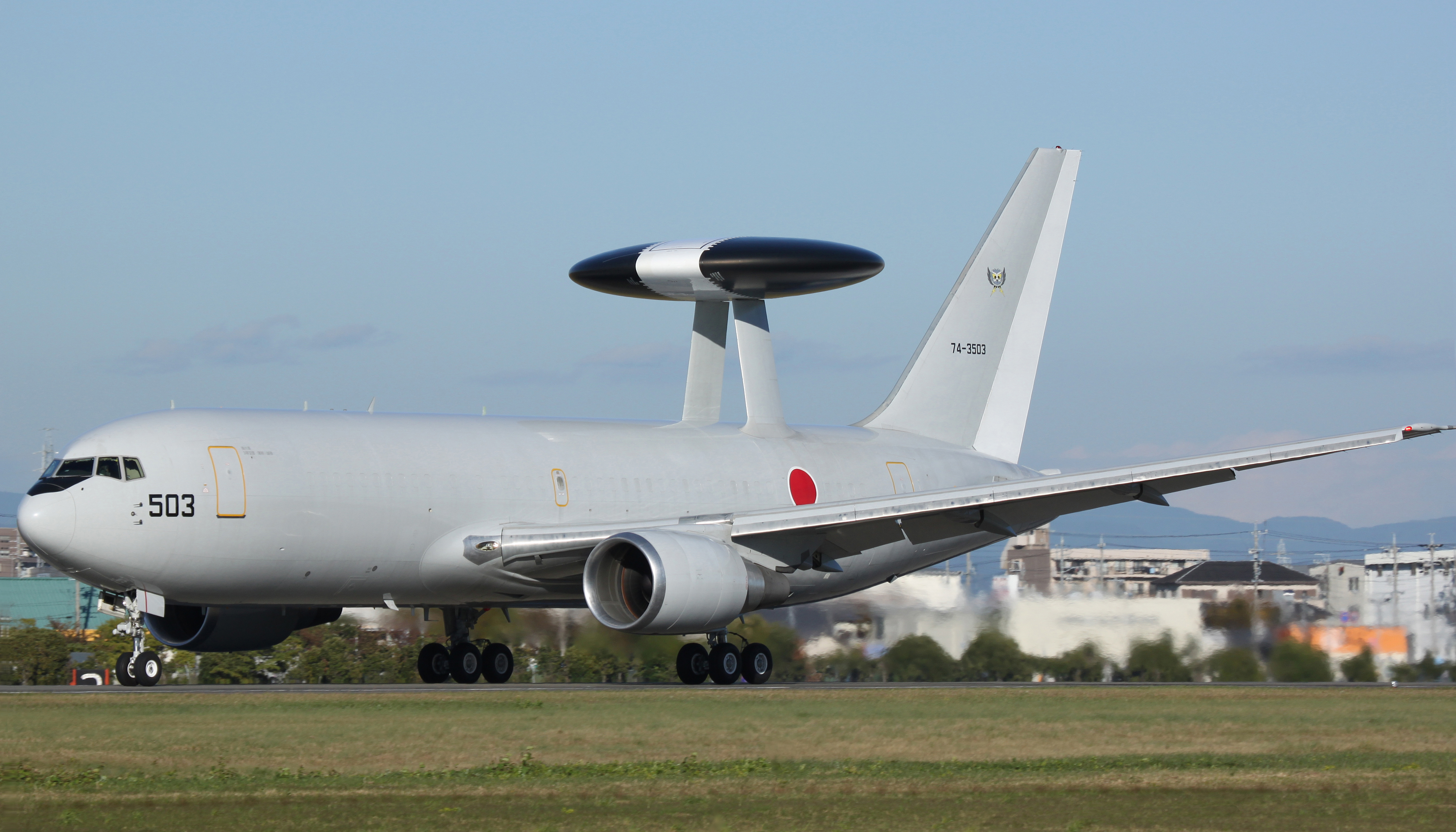 All three of the Japanese AWACS were at home when we visited. They also have four tanker versions and yes, we saw all of those too!